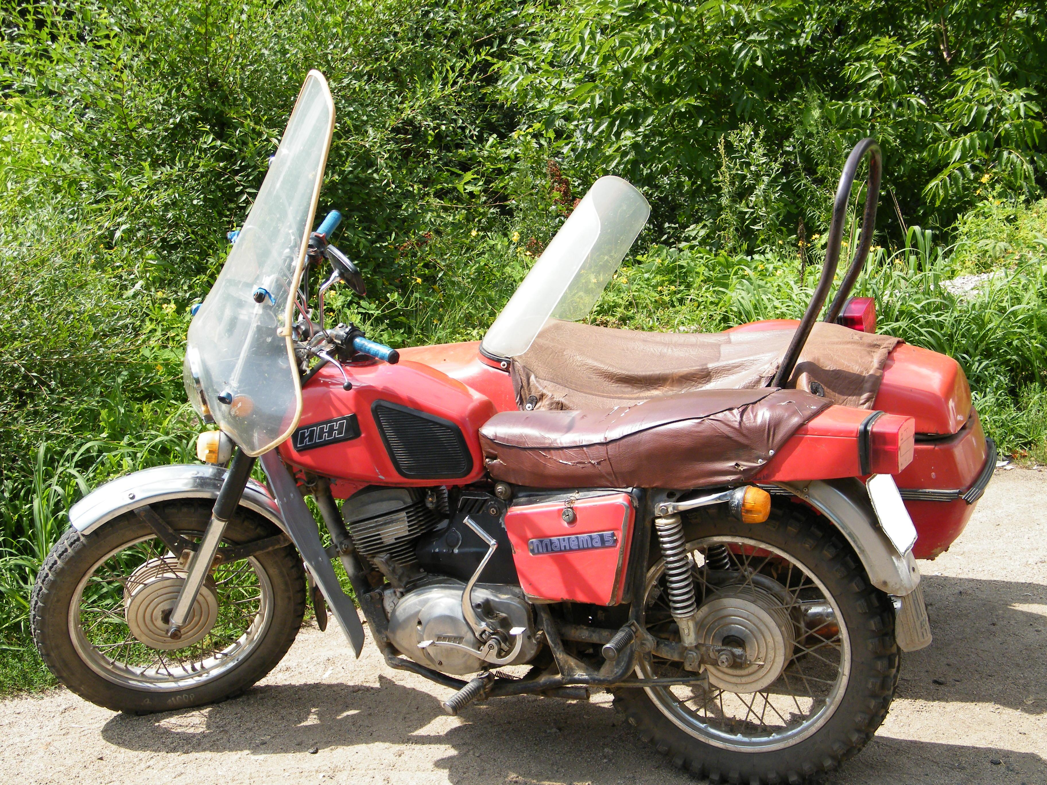 Иж Планета-5